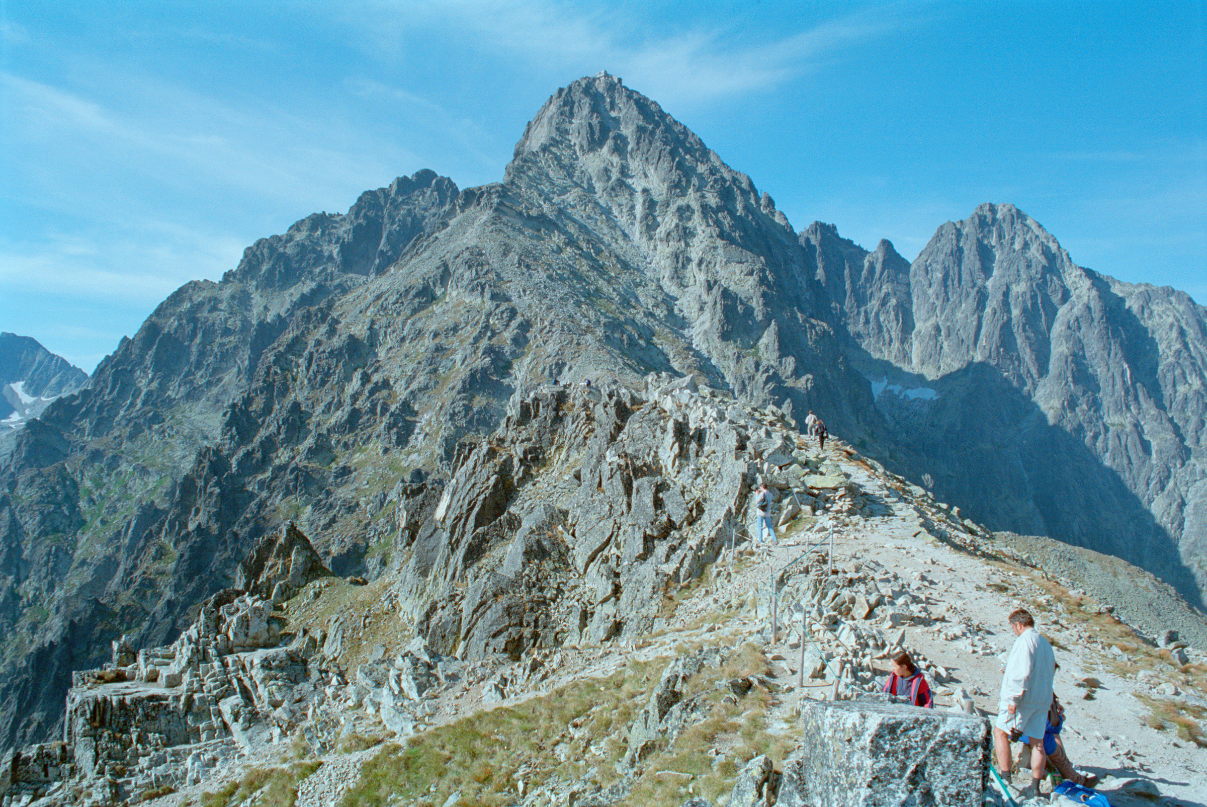 Lomnický štít own picture, taken in summer 2000